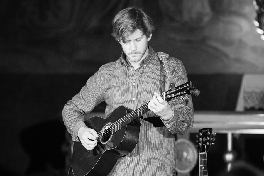 Torgeir Hovden Standal in a concert with Siril Malmedal Hauge in Iladalen kirke. The concert took place on 11. September 2019 in Oslo. Lineup:Siril Malmedal Hauge (vocal)Martin Myhre Olsen (saxophone)Kjetil Andre Mulelid (piano and organ)Torgeir Hovden Standal (guitar)Martin Morland (bass guitar)Henrik Lødøen (drums)